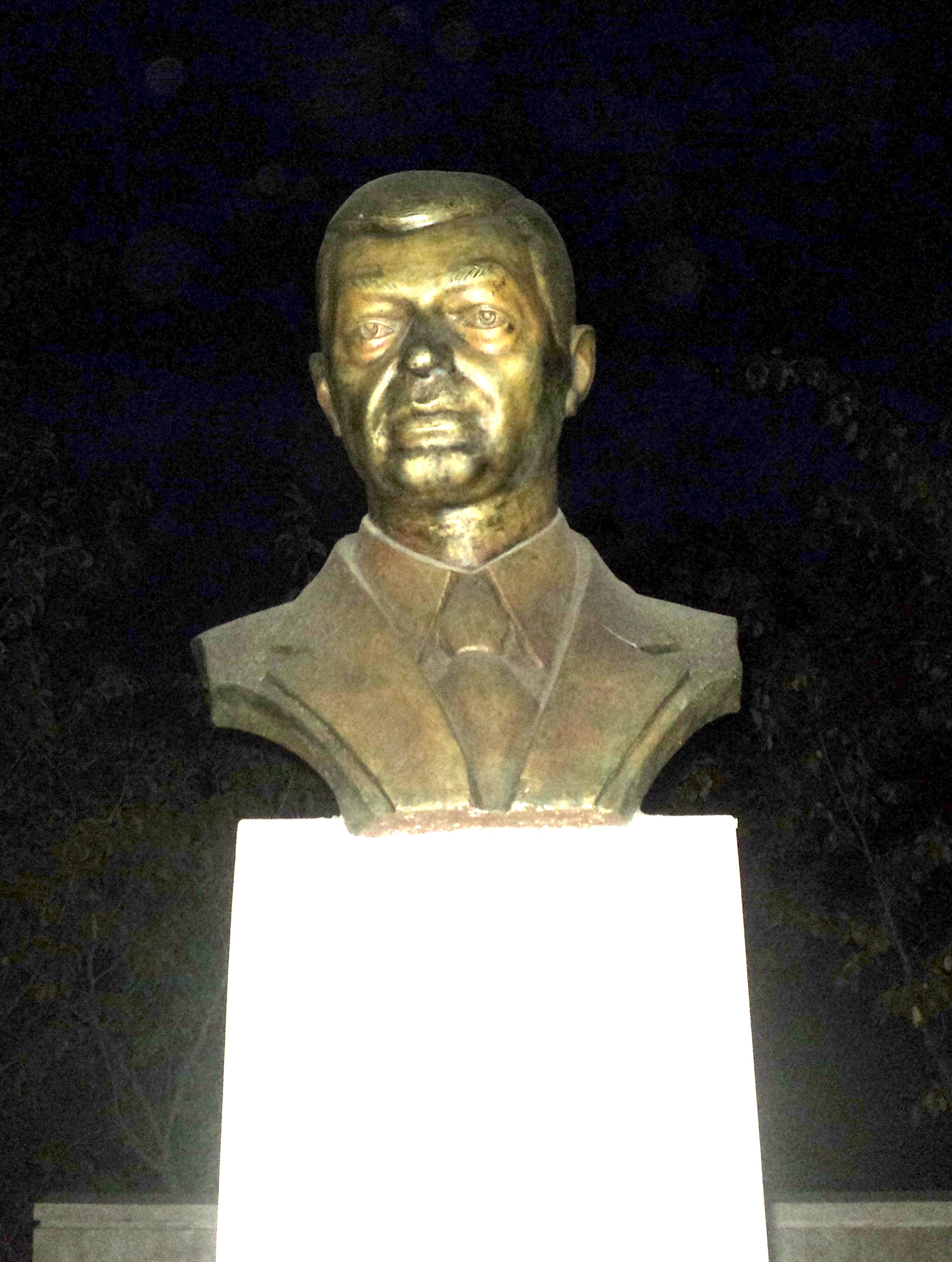 Համլետ Թամազյանի կիսանդրին Օձունում